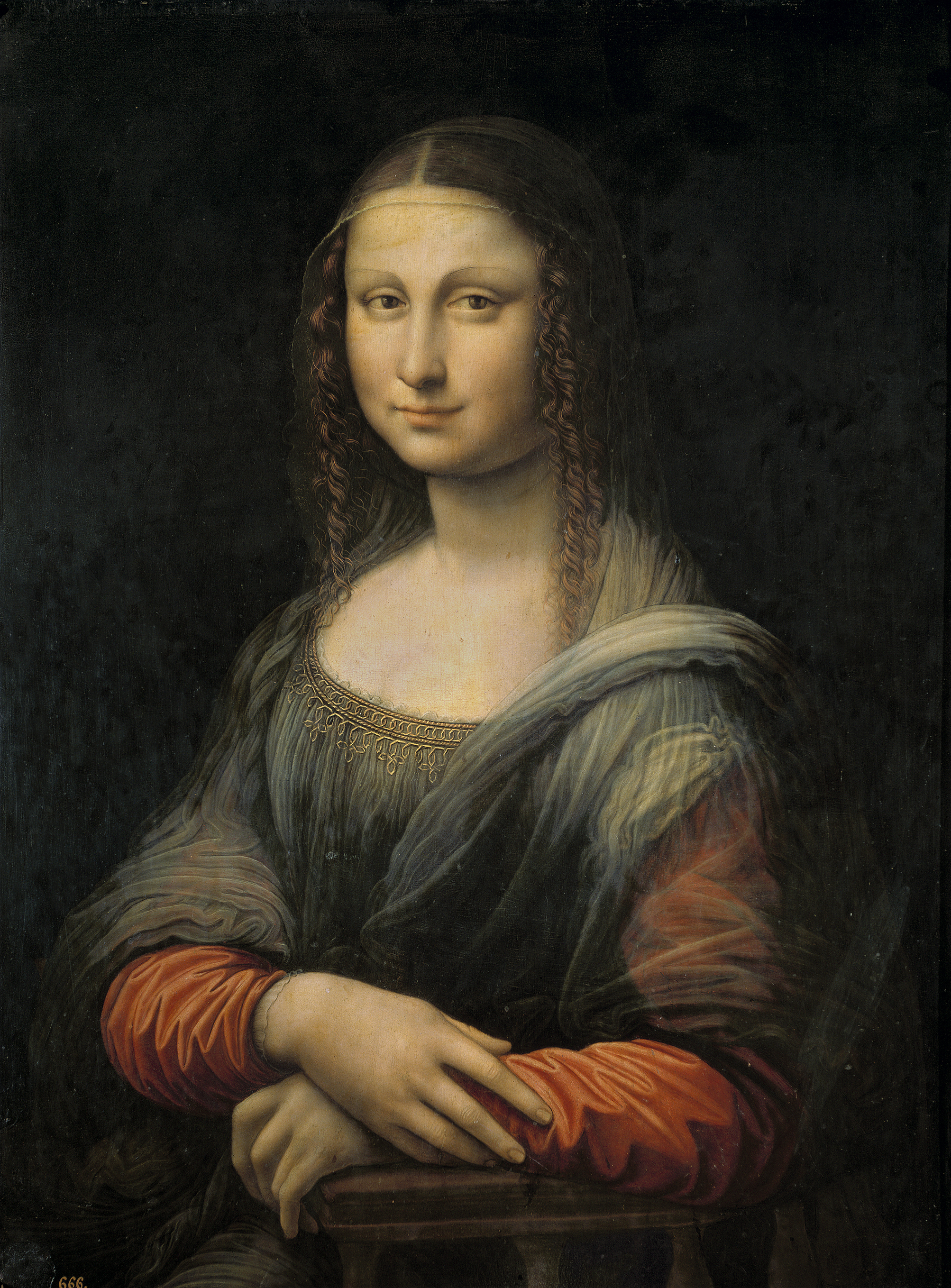 Copy of La Gioconda in the Museo del Prado, Madrid. Work made by an apprentice of Leonardo da Vinci, possibly Francesco Melzi or Andrea Salai, in the XVI century.